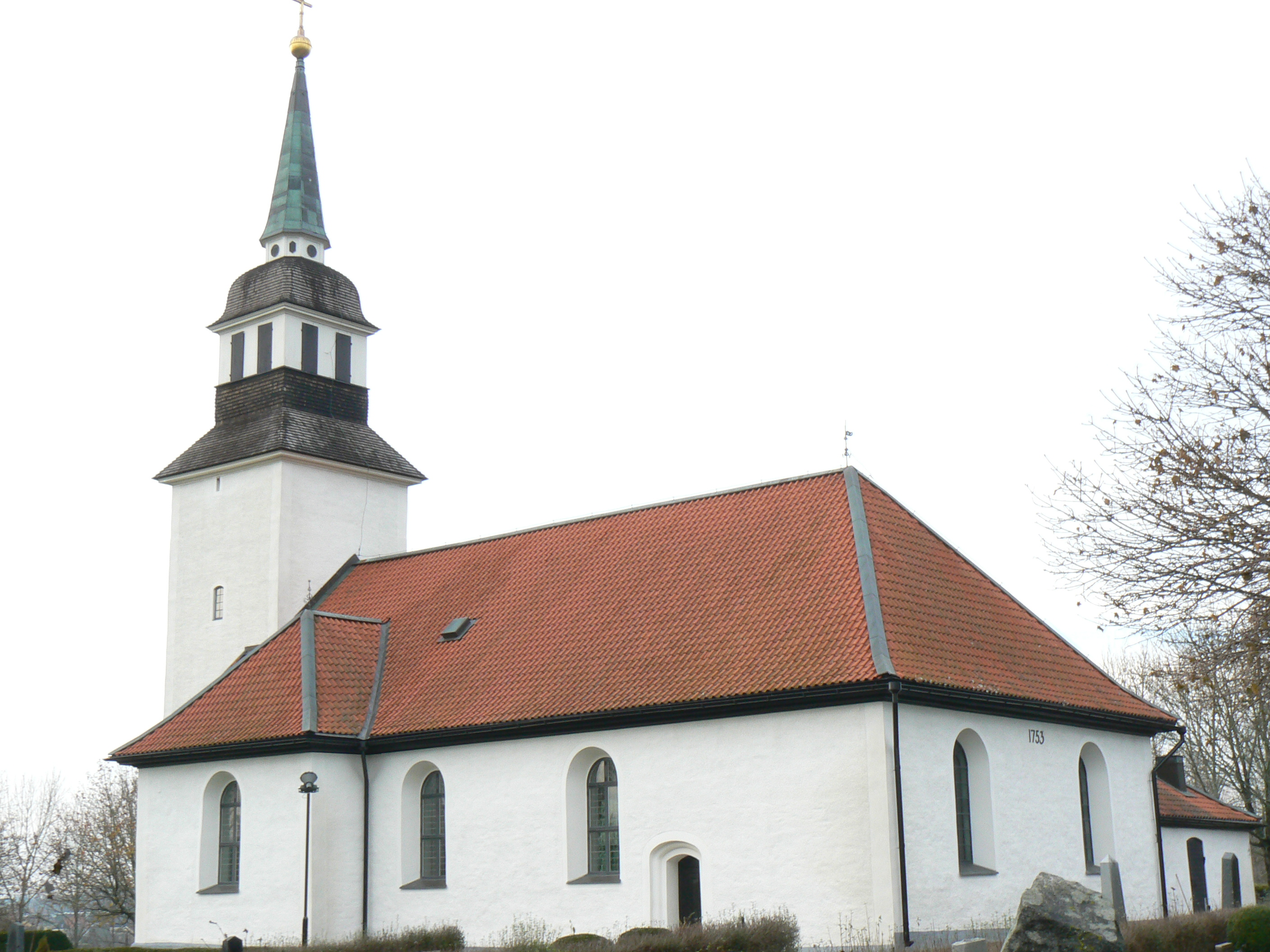 Landeryd church near Linköping, Sweden. Photo by Skvattram 2006-11-18.